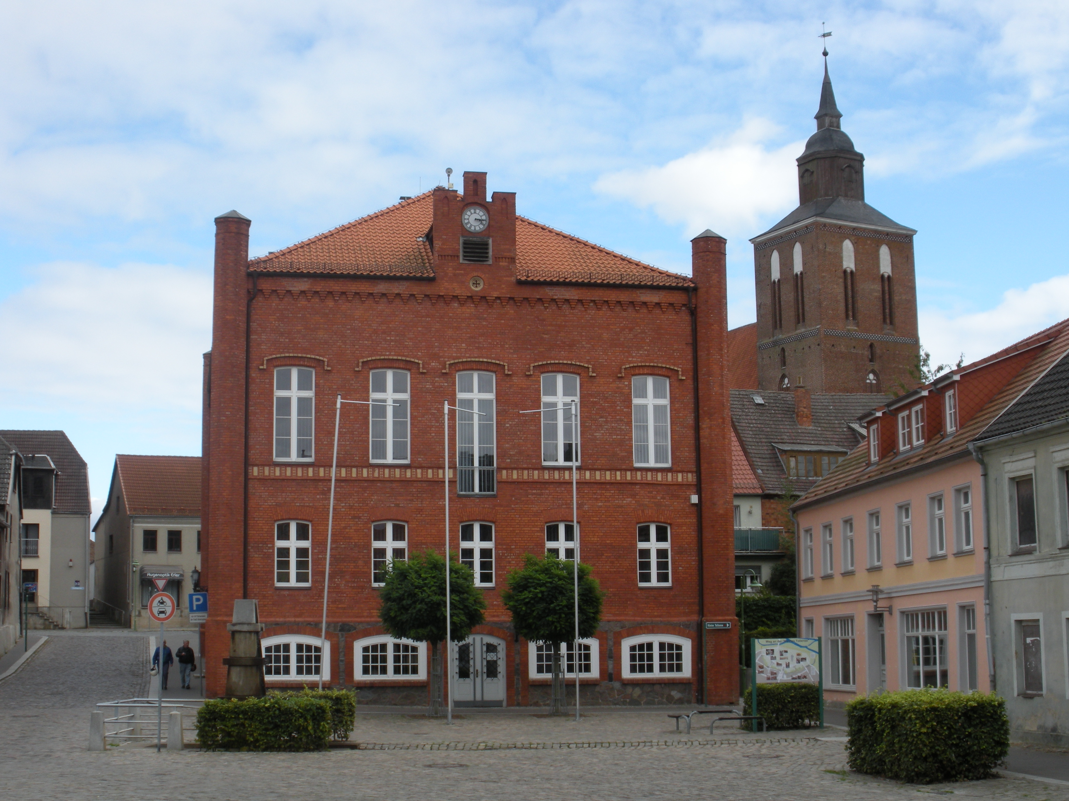 Town Hall and Protestant Church of St. Petri in Altentreptow, Landkreis Demmin